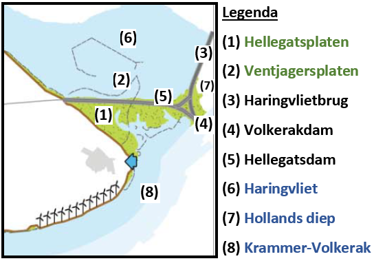 Een kaartje van het gebied. Gemaakt door Stanley Fronik.